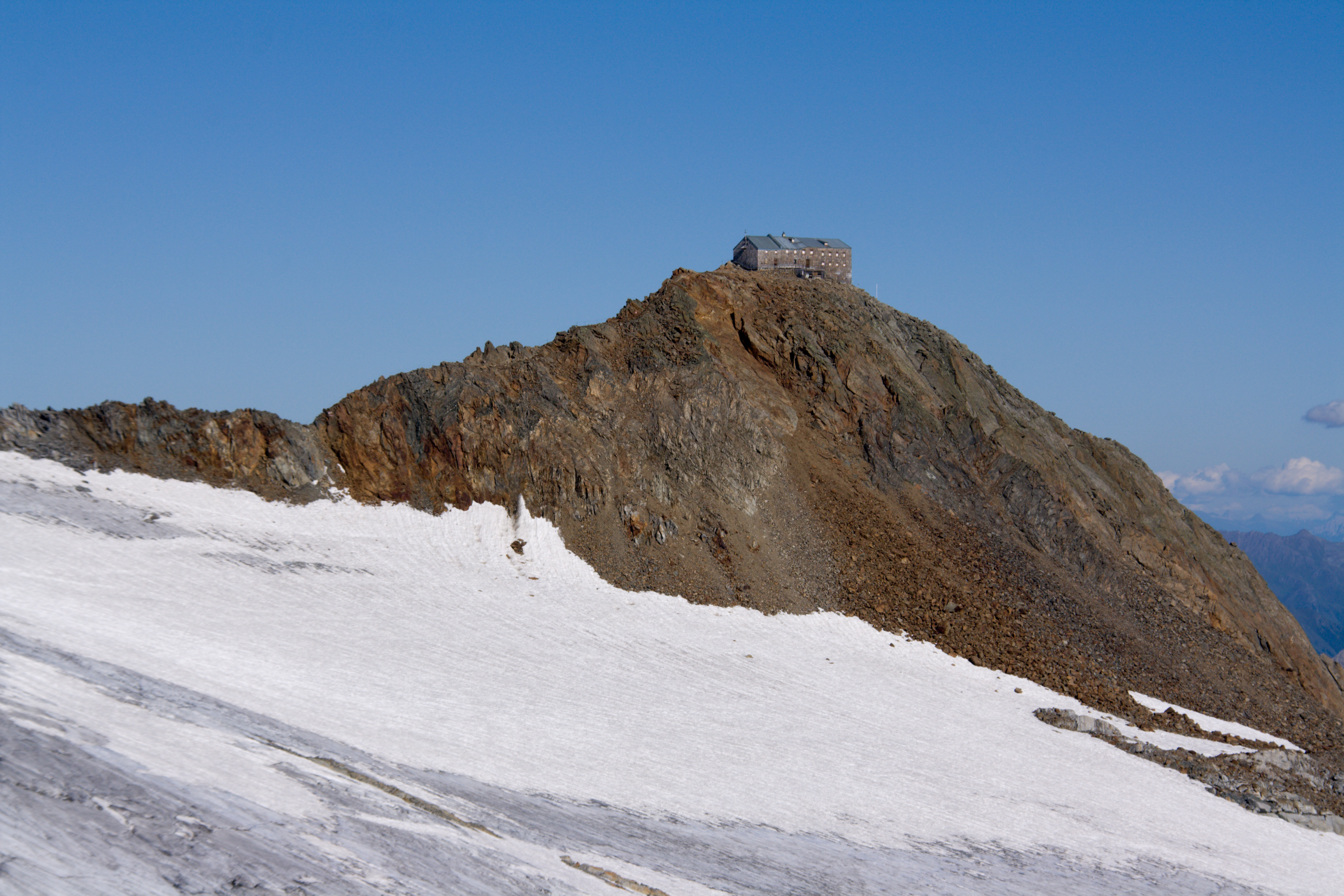 Becherhaus above the Übeltalferner